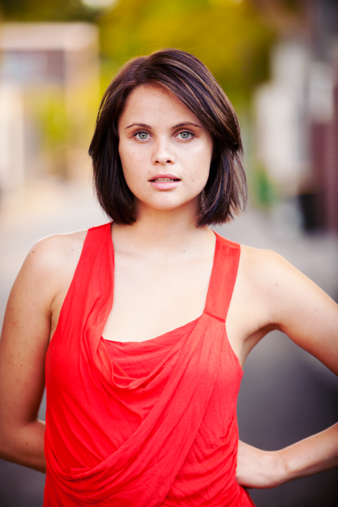 Gabrielle Scollay